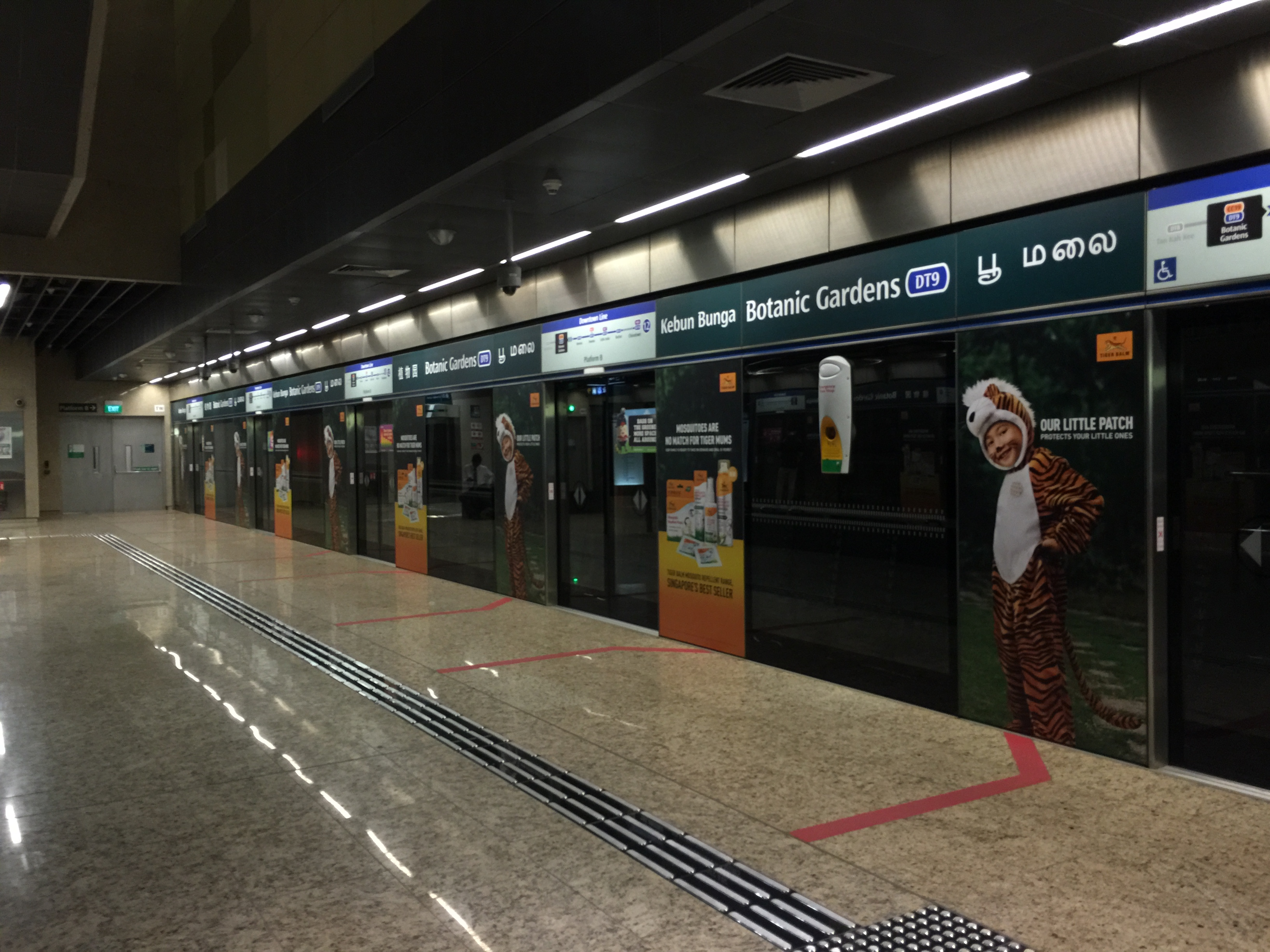 Botanic Gardens MRT Station - Platform B on the Downtown Line.